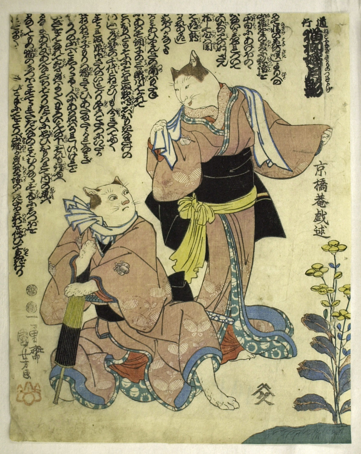 Colour woodblock print (trimmed).